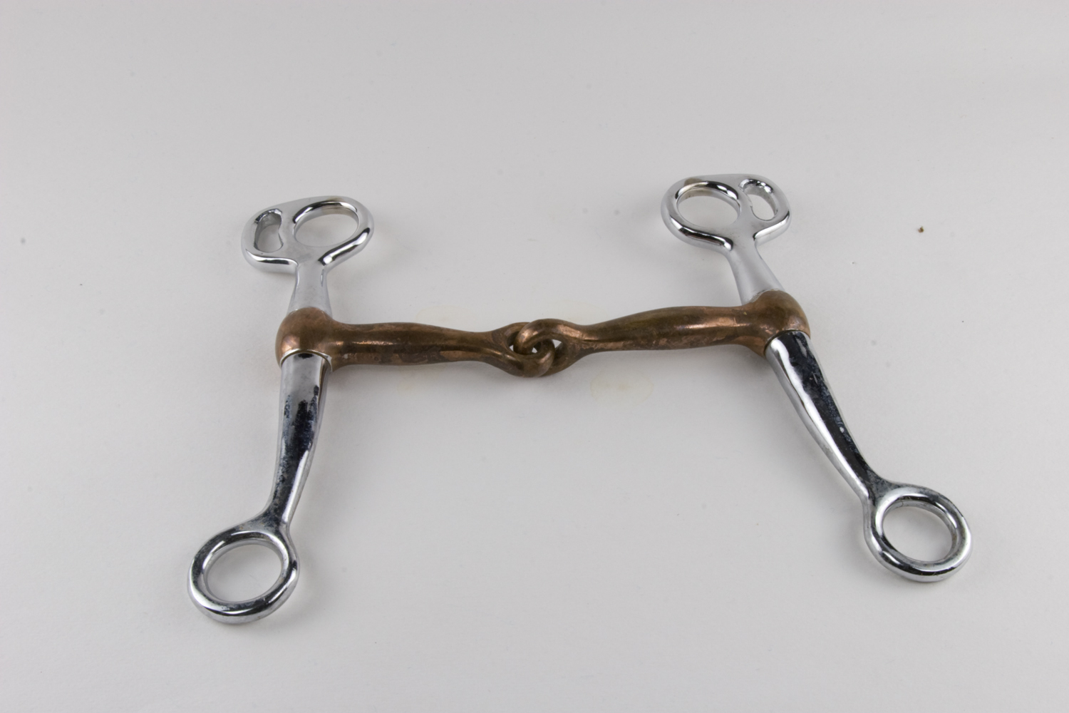 Copper mouthed, Tom Thumb bit